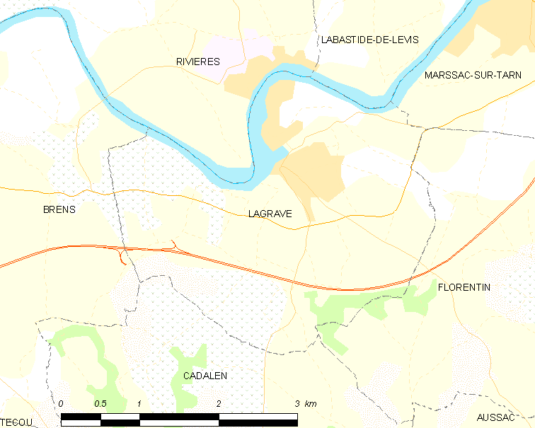 Map of French municipality Lagrave